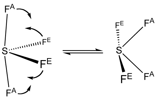 chemical equilibrium of the molecule SF4